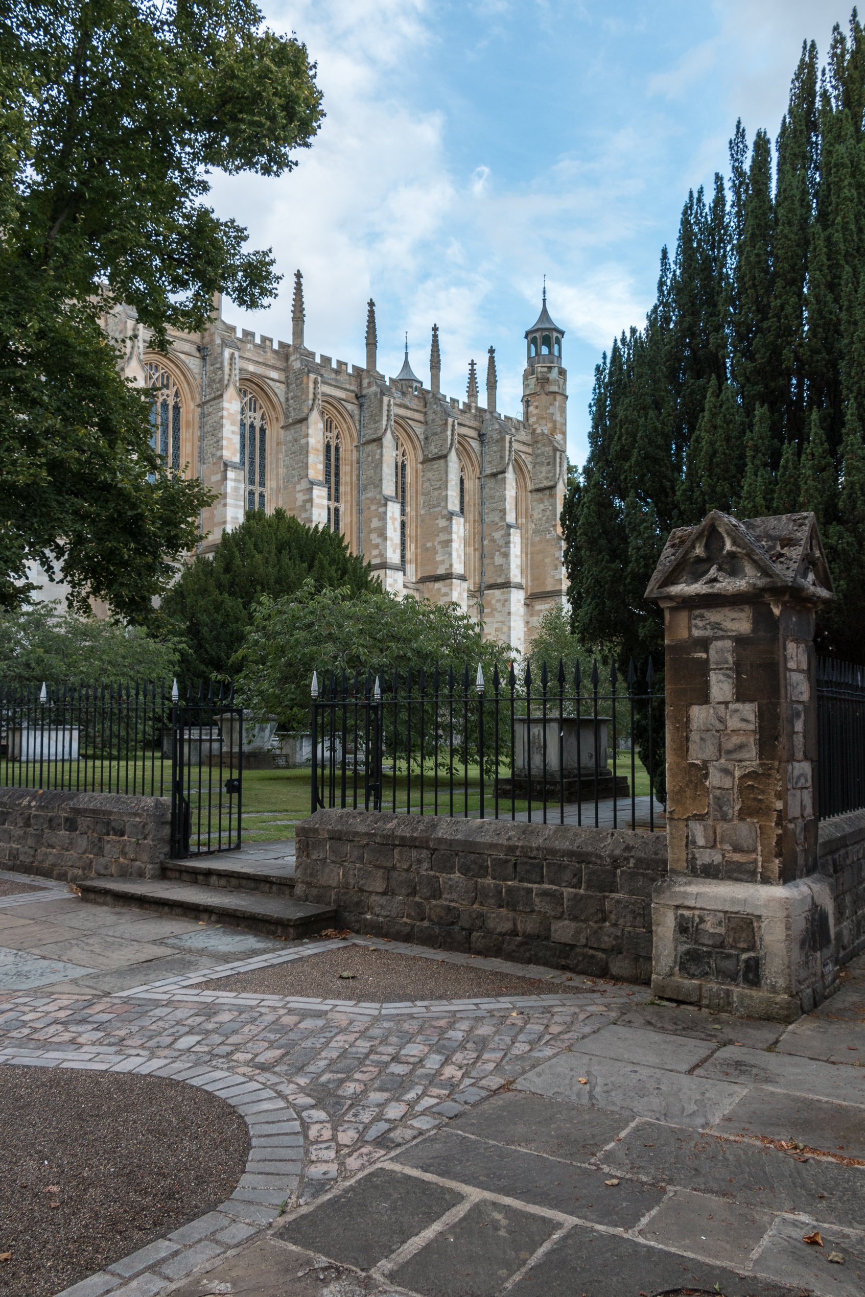 Eton College Church Yard